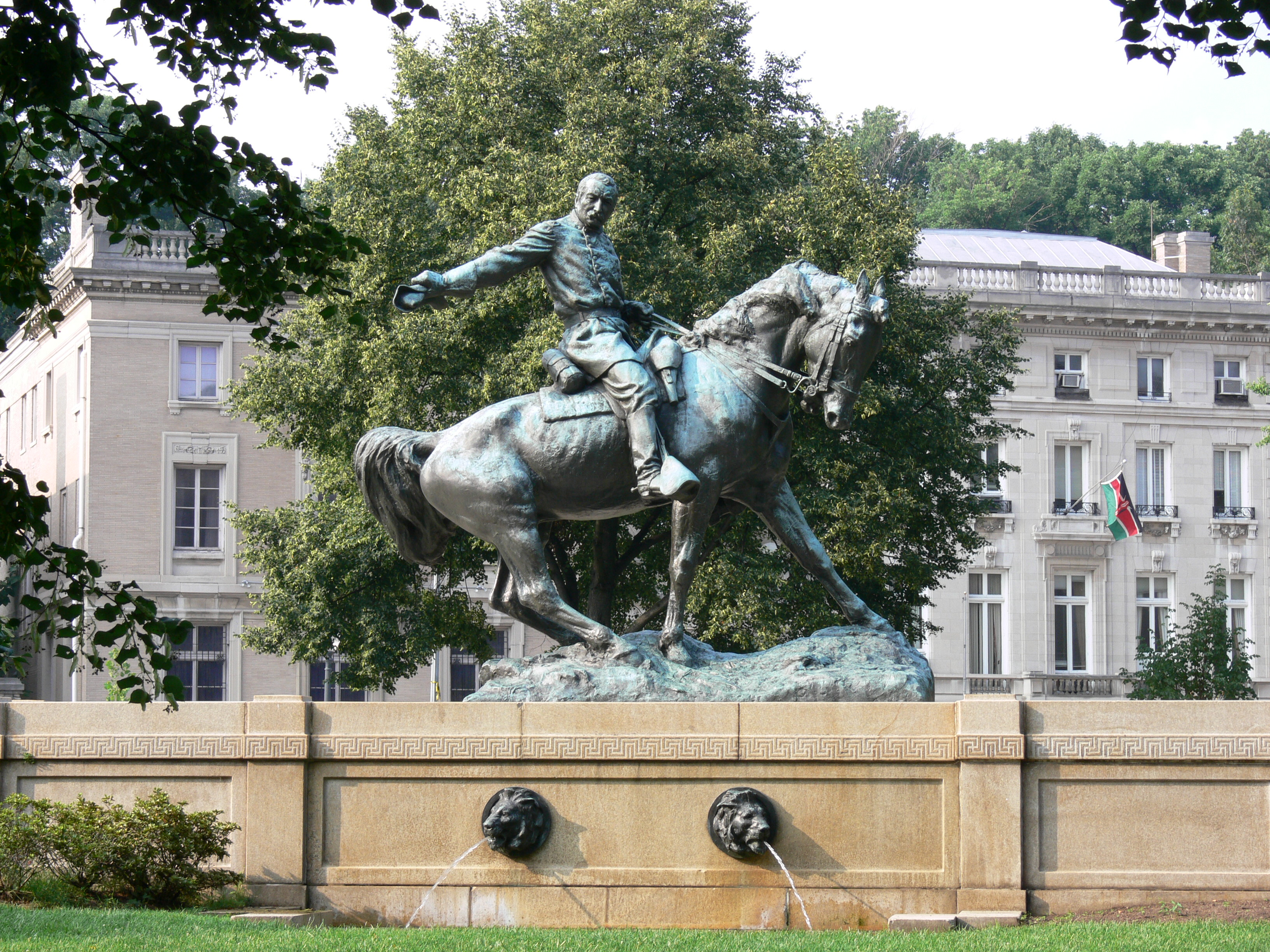 Statue of General Sheridan by sculptor Gutzon Borglum, 1908, located in the center of Sheridan Circle in Washington, D.C. Description of the artwork depicted in the photograph Title of the sculpture: General Philip Sheridan. Dates: Commissioned July 2, 1907. Modeled May 29, 1908. Dedicated Nov. 25, 1908. Medium: Bronze Dimensions: Approx. 10 x 12 ft. x 5 ft. Inscription: (Proper left of sculpture:) GUTZON BORGLUM 1908 (Proper right of sculpture near base:) GORHAM CO FOUNDERS (Front of base:) SHERIDAN signed Founder's mark appears. Published: before 1923. Source: Exhibition of Sculpture By Gutzon Borglum. Photograph of the sculpture in the pamphlet: Document 253702. Presumed to be in the public domain as per and Other copies of this artwork: DN-0078172 (1924), Chicago Daily News negatives collection, Chicago Daily News 1902-1933, Chicago Historical Society, Smithsonian Art Inventories Catalogue.